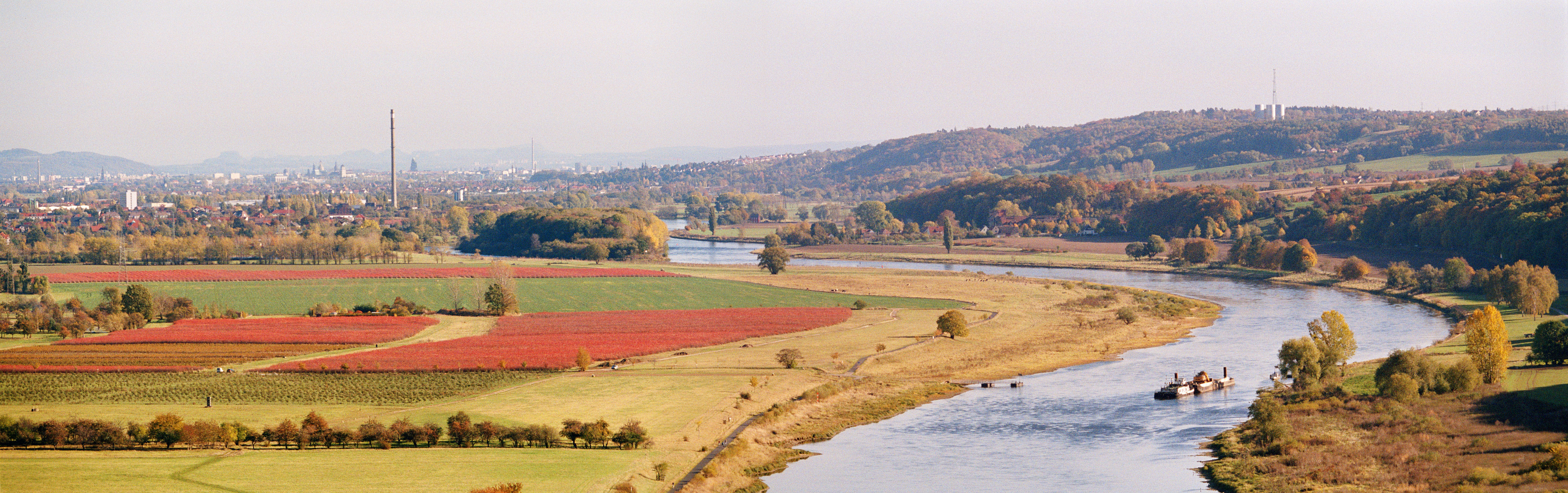 the river Elbe in germany near Dresden; picture taken from a viewpoint called Bosel in the Spaargebirge near Meißen; you can see the valley of the river Elbe up the river, on the left side of the picture the bike path "Elberadweg", the city of Dresden including the rebuilt Church of our Lady and the towers of the town hall and the world trade center and various churches and at the horizon the elb sandstone mountains